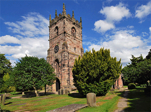 Photograph of St.Peter's Church, Prestbury